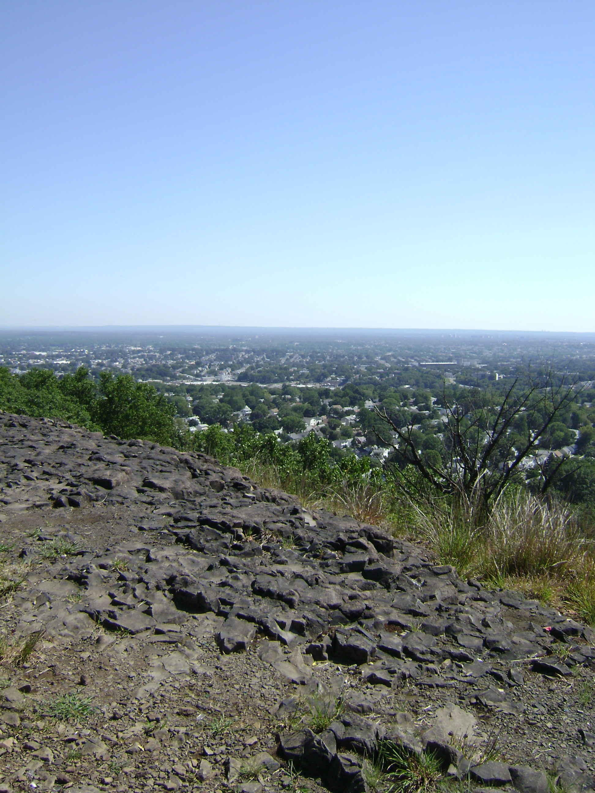 View facing northeast from First Watchung Mountain in Rifle Camp Park, located along the border of Woodland Park and Clifton, New Jersey, USA.